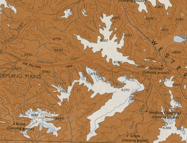 This image shows the detail view of the Chip Chap River; extracted from File:Txu-oclc-6654394-ni-44-3rd-ed.jpg. The Karakash River flows northwest towards the right side of the map, the Shyok River to the west is not included in the map.